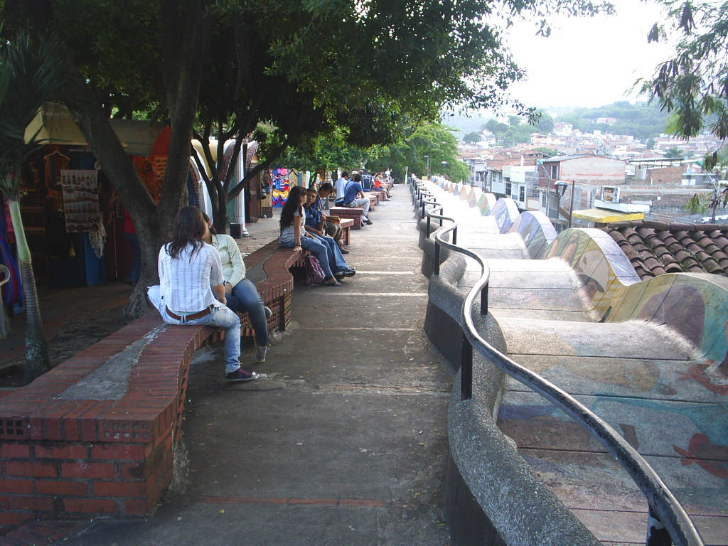 Loma de la Cruz Park